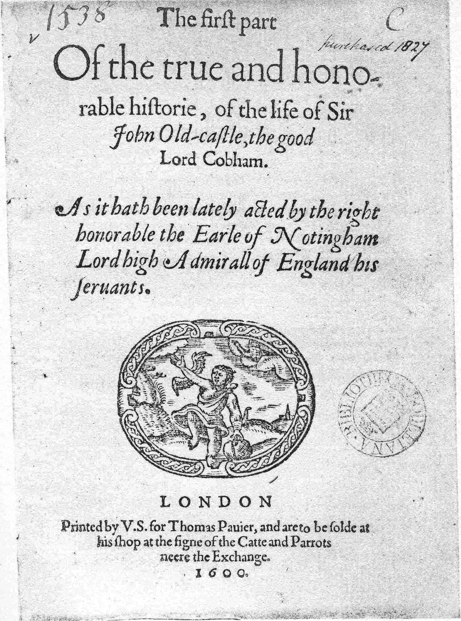 Title page of Sir John Oldcastle first quarto (1600) printed anonymously